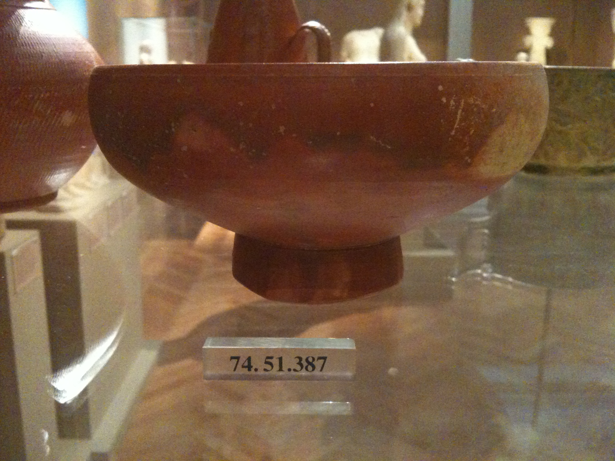 Eastern Sigillata A Bowl in Metropolitan Museum, New York (74.51.387)